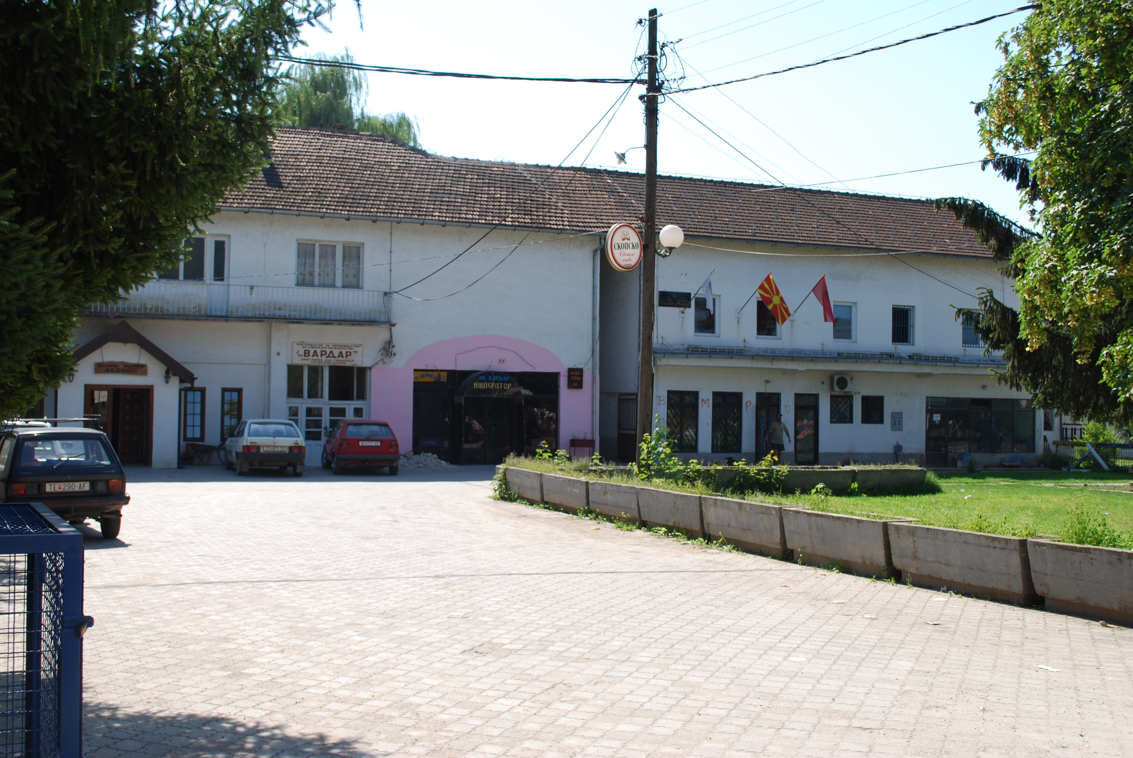 Brvenica municipality building